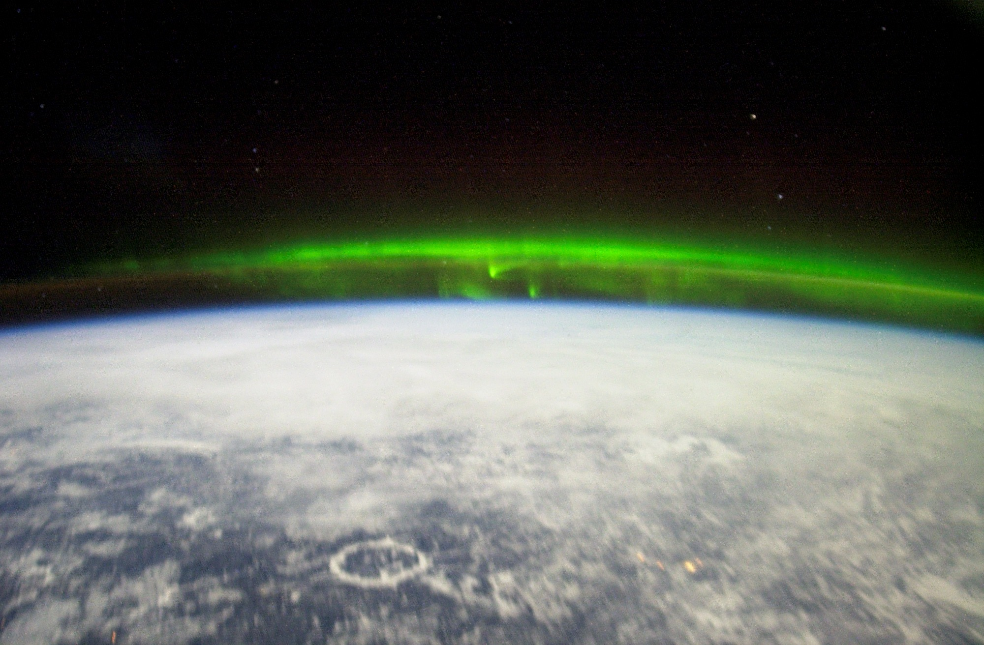 The Aurora Borealis or northern lights and the Manicouagan Impact Crater reservoir (foreground) in Quebec, Canada, were featured in this photograph taken by astronaut Donald R. Pettit, Expedition Six NASA ISS science officer, on board the International Space Station (ISS).